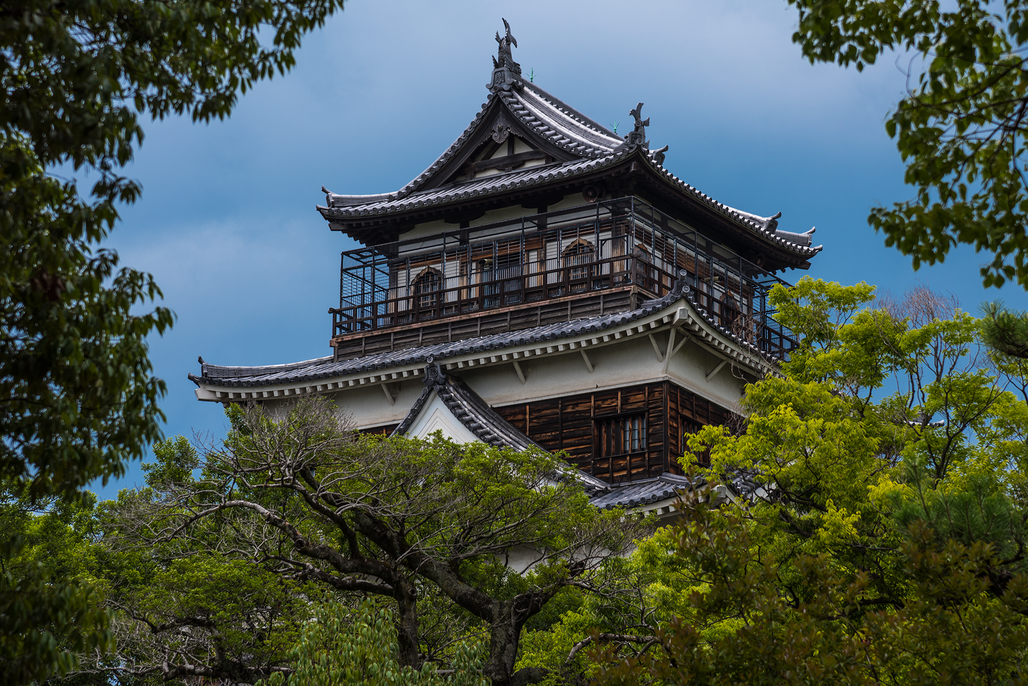 Hiroshima Castle